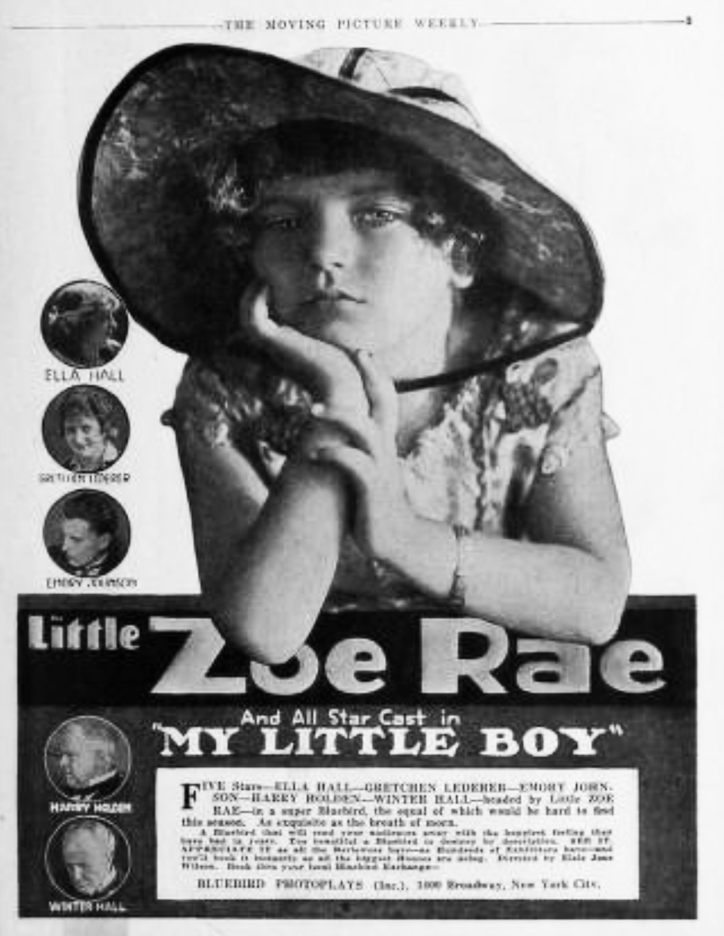 Moving Picture Weekly Ad